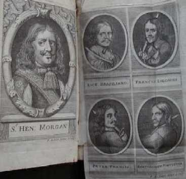 Rare edition of "History of the Buccaneers of America" by Alexandre Exquemelin with depictions of Morgan, L'olonnais, Francois, Portugues, and Brasiliano.